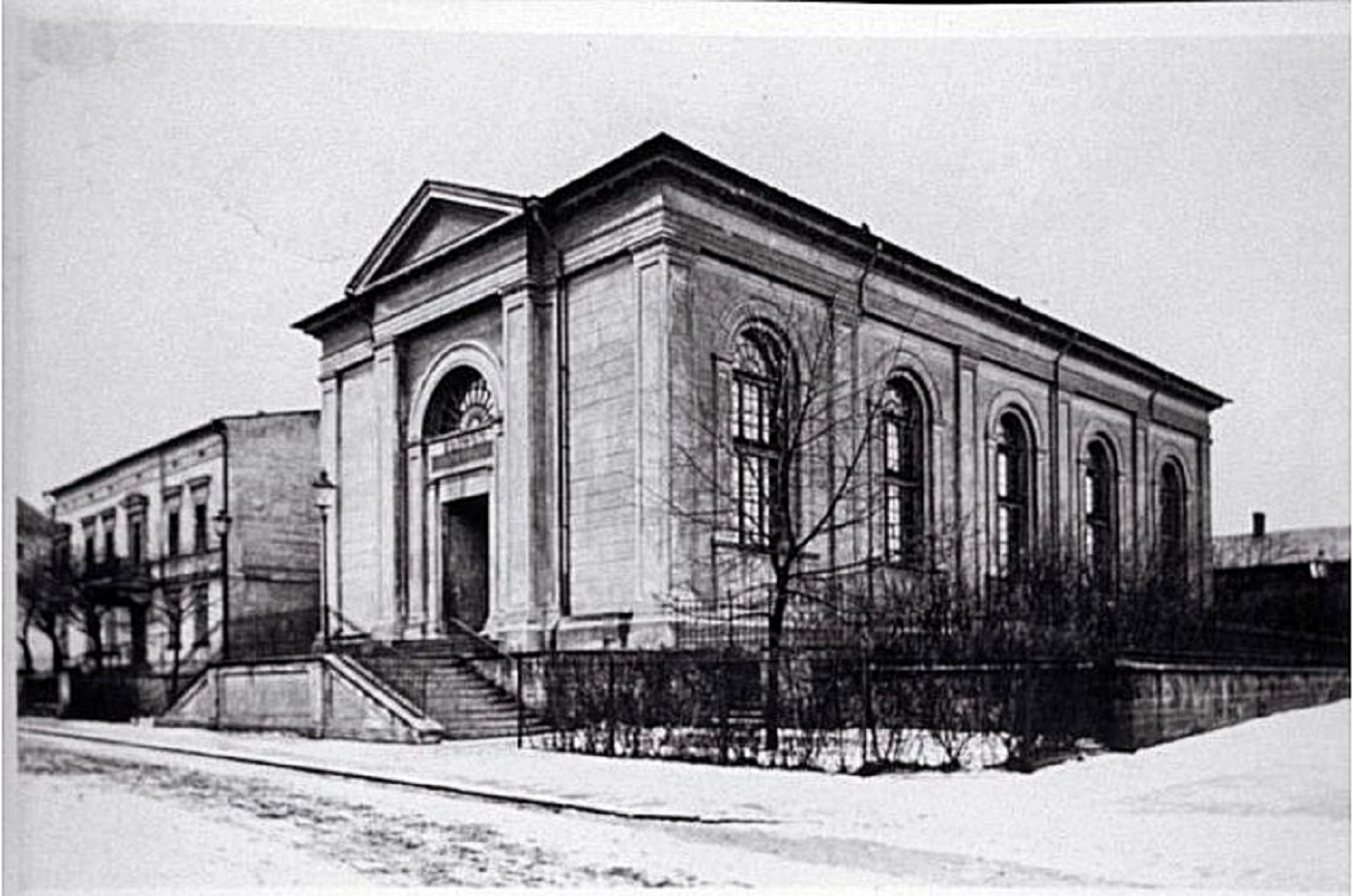 Synagogue in Rybnik